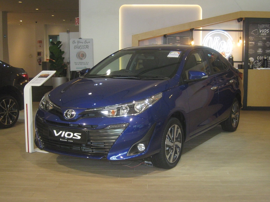 2018 Toyota Vios 1.5 G (NSP151), shown in Dark Blue Mica Metallic, photographed in Singapore.